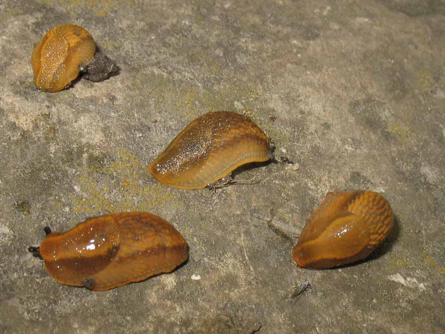 Juvenile Arion vulgaris from Lower Austria.